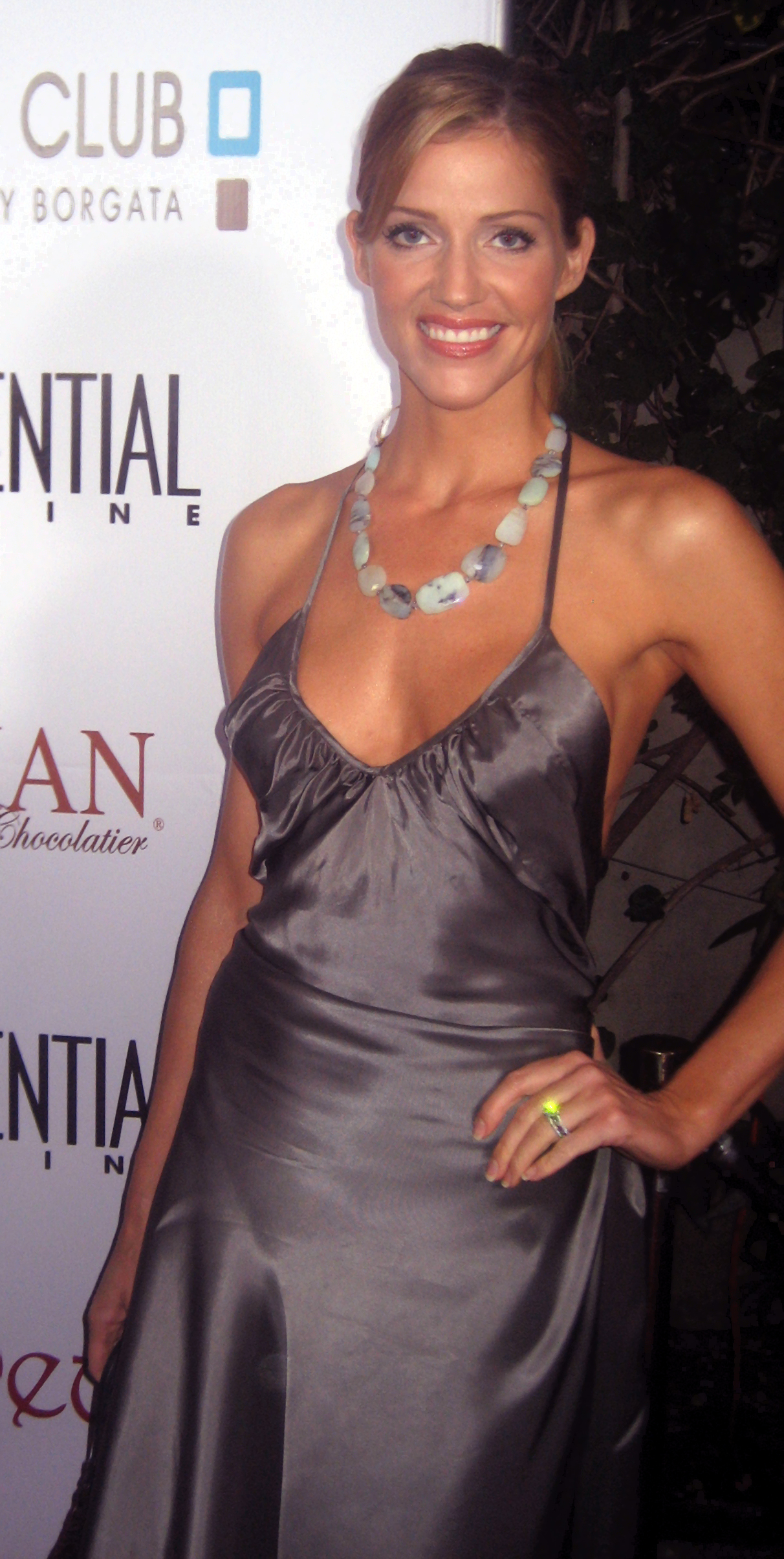 L.A. Confidential/Belvedere/Water Club/Sapporo Emmy Party